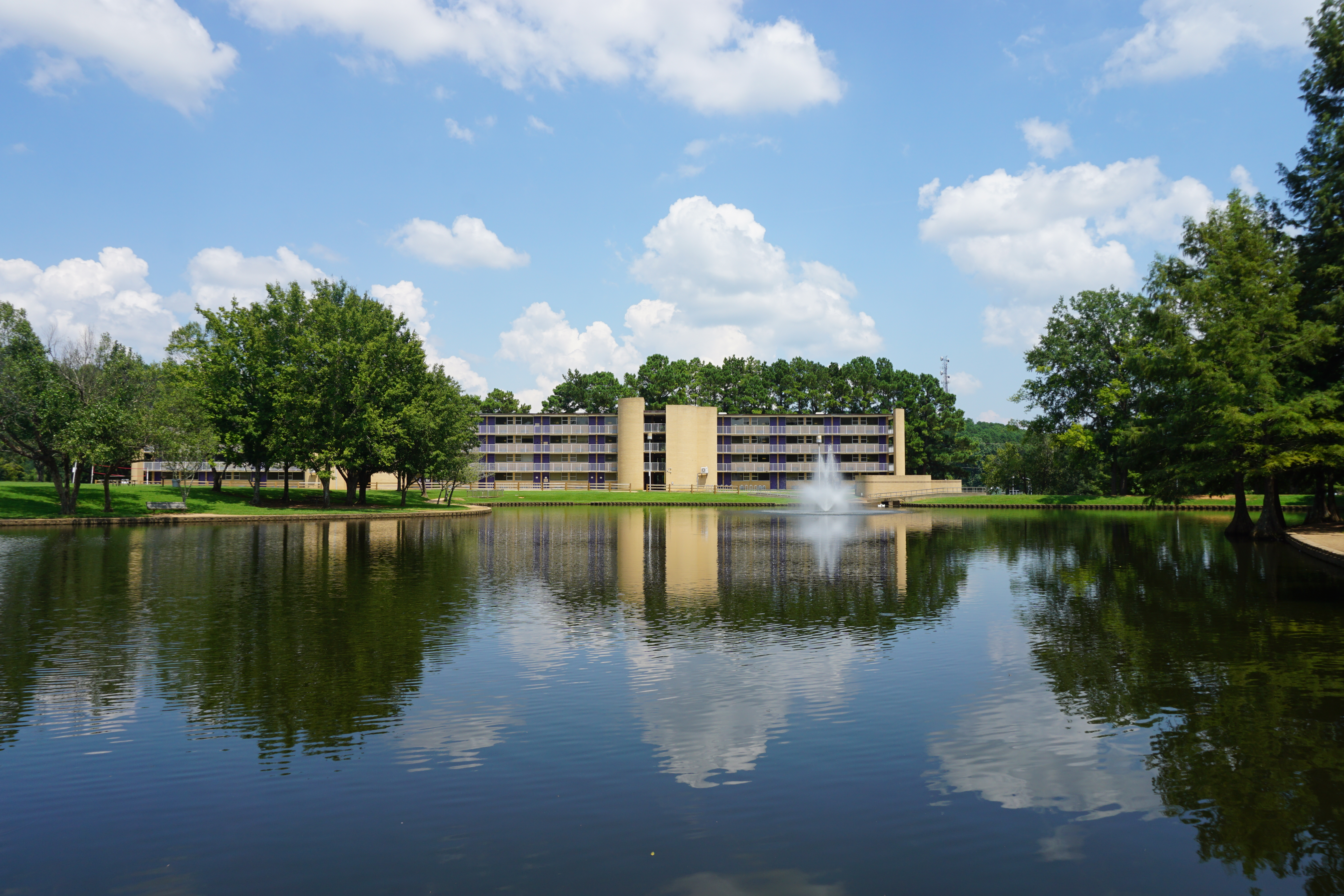 The Ag Pond and Hall 20 on the campus of Stephen F. Austin State University in Nacogdoches, Texas (United States).